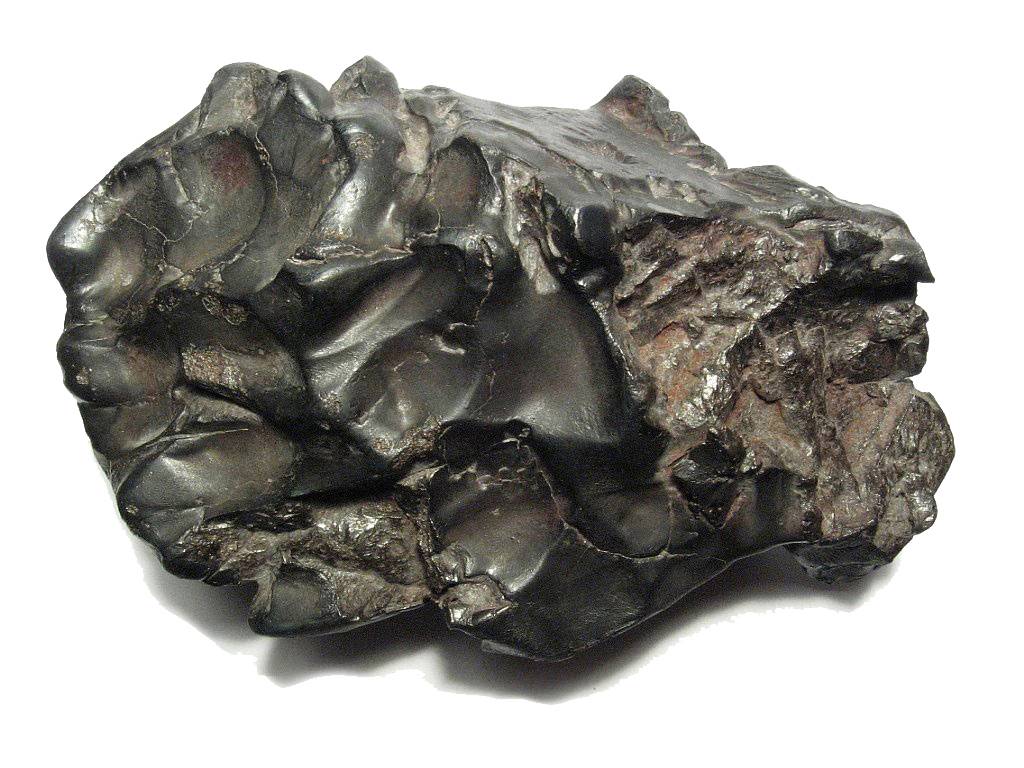 A 1.7kg individual meteorite from the Sikhote Alin meteorite shower (coasrsest octahedrite, class IIAB). This specimen is about 12cm wide. Sikhote Alin meteorite shower fell on 1947 February 12 in the dense forest of eastern Siberia, and over 23 tons of meteoritic material has been recovered.